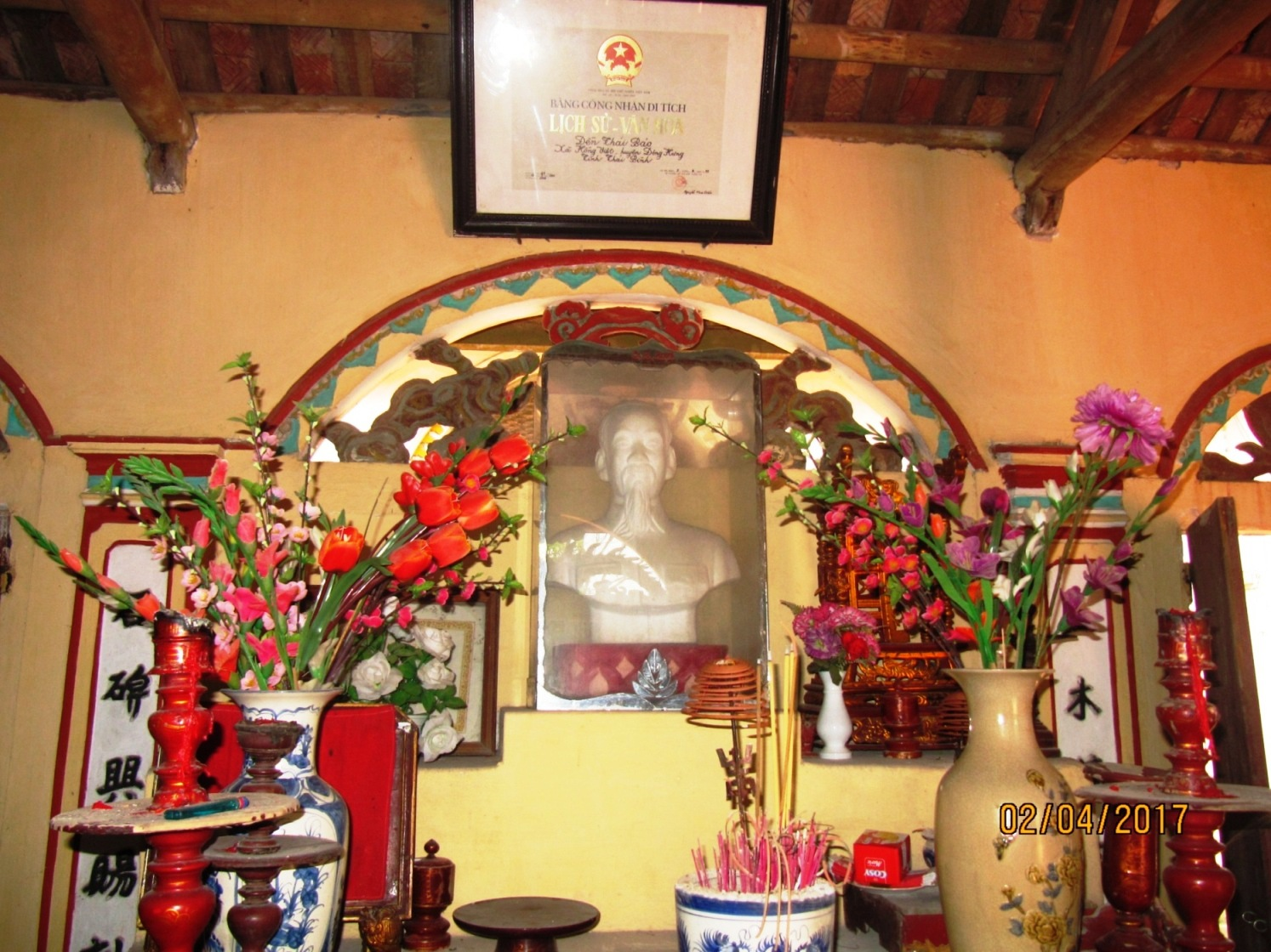 Do Tu Binh Altar, in Hong Viet commune, Thai Binh province, Vietnam.